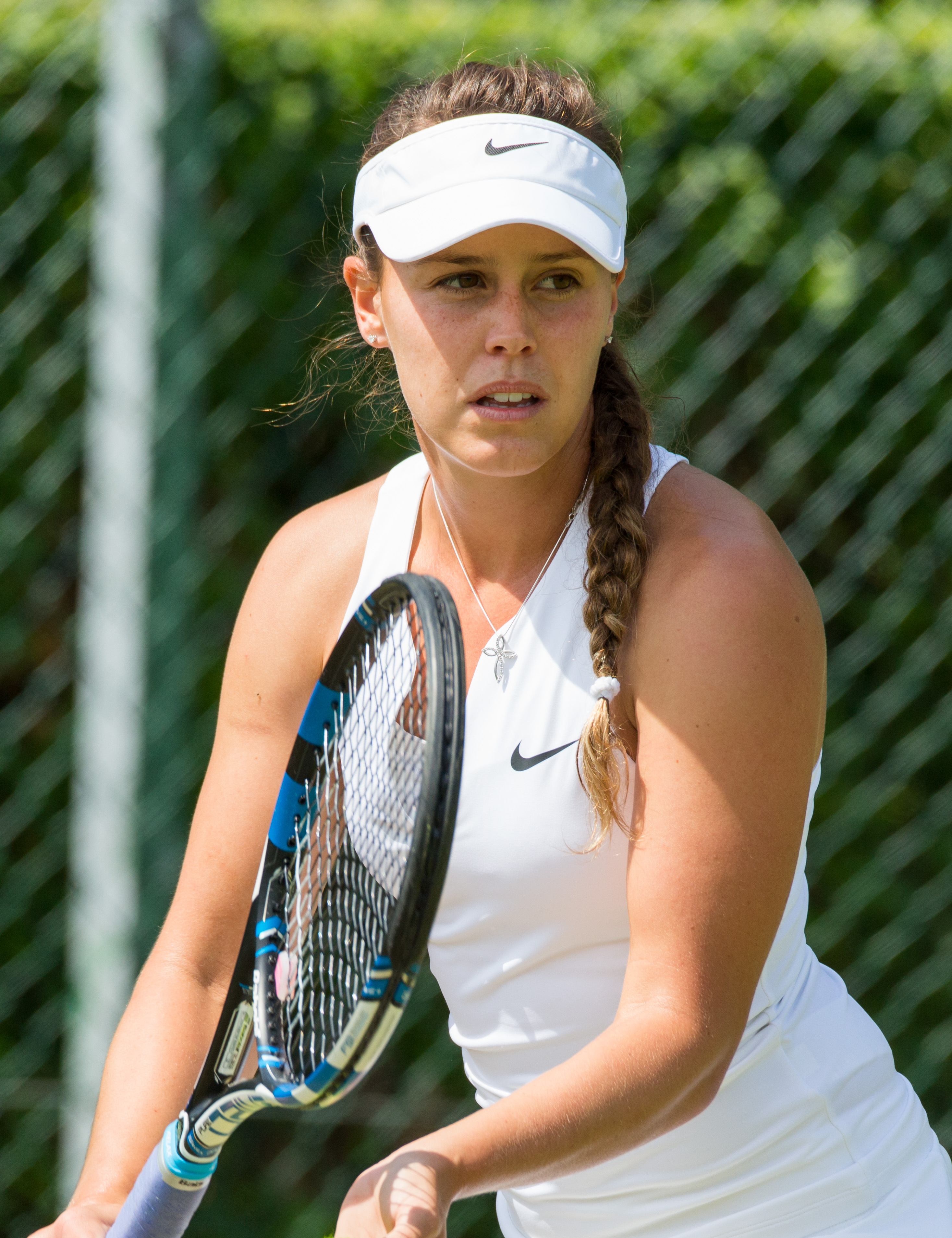 Michelle Larcher de Brito competing in the second round of the 2015 Wimbledon Qualifying Tournament at the Bank of England Sports Grounds in Roehampton, England. The winners of three rounds of competition qualify for the main draw of Wimbledon the following week.